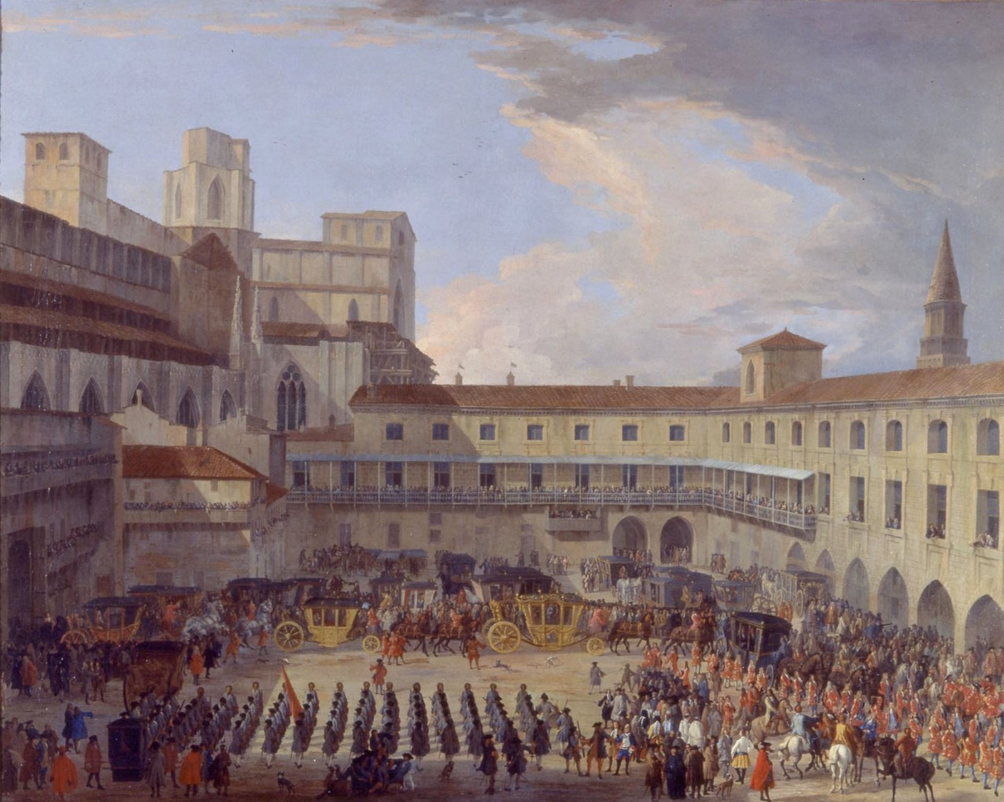 Ingresso degli ambasciatori veneziani nel Palazzo Ducale di Milano in occasione dell'arrivo del Re di Spagna Carlo III nel 1711